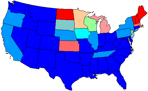 Summary of party control of U.S. house seats in the 75th United States Congress following election. Stripes indicate a tie between two or more parties. Legend: 80.1-100% Democratic seat majority 60.1-80% Democratic seat majority 60% or less Democratic seat plurality 60% or less Republican seat plurality 60.1-80% Republican seat majority 80.1-100% Republican seat majority 60% or less Farmer-Labor seat plurality 60.1-80% Progressive seat plurality